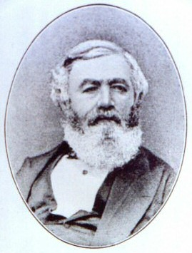 Portrait of Henry Bolckow, co-founder of Bolckow Vaughan of Middlesbrough, about 1860